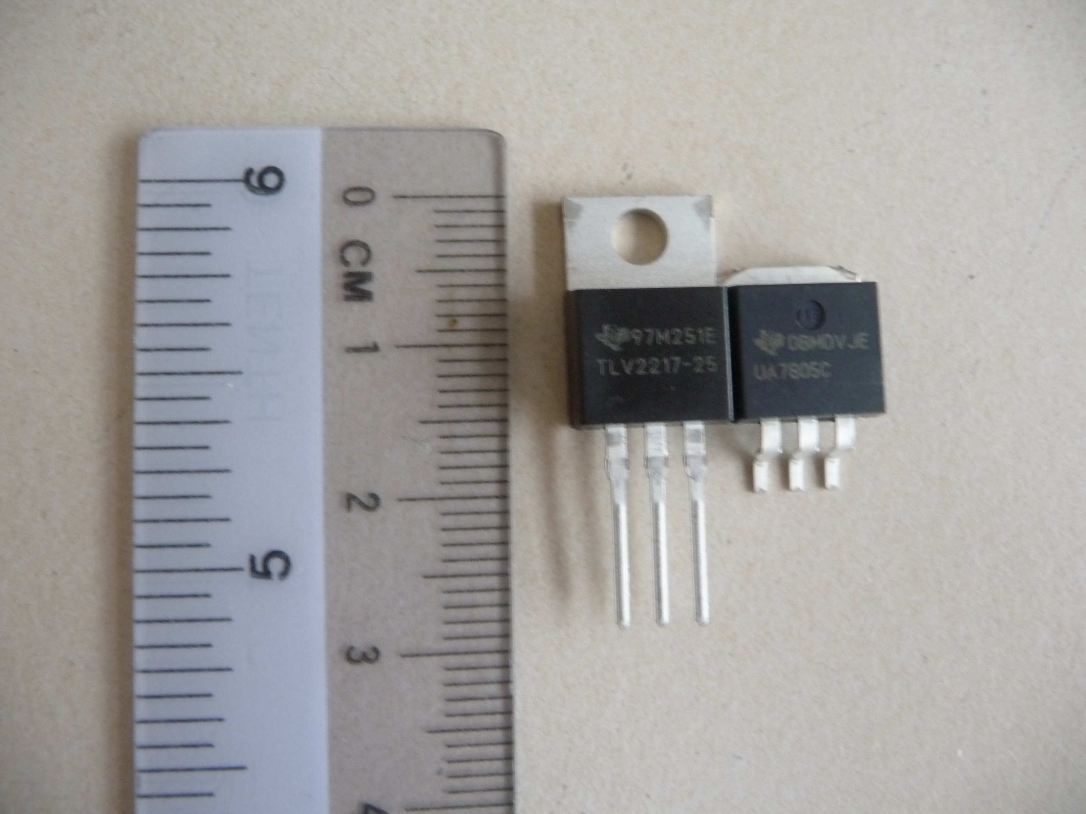 A TO-220 package beside a TO-263 package. Note the lack of the extended mounting tab on the TO-263